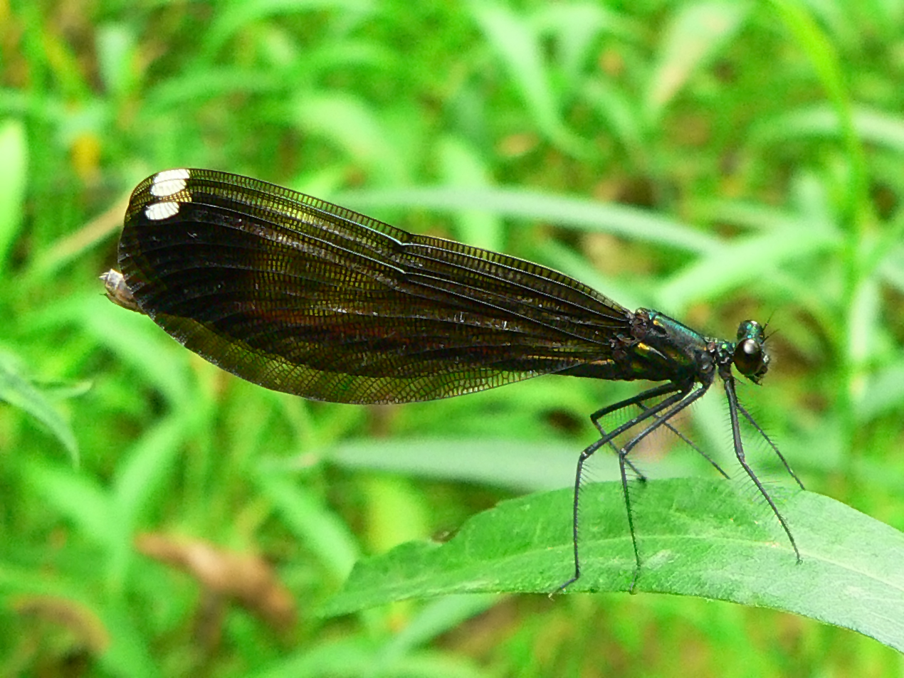 Female Ebony Jewelwing Damselfly, taken by Greg Hume June 18, 2006 near Oxford, OH.